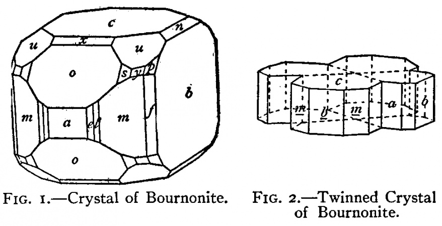 Bournonite, a mineral species, a sulphantimonite of lead and copper with the formula PbCuSbS3. It is of some interest on account of the twinning and the beautiful development of its crystals. It was first mentioned by Philip Rashleigh in 1979 as "an ore of antimony," and was more completely described by the comte de Bournon in 1804, after whom it was named: the name given by Bournon himself (in 1813) was endellione, since used in the form endellionite, after the locality in Cornwall where the mineral was first found. The crystals are orthorhombic, and are generally tabular in habit owing to the predominance of the basal pinacoid (c); numerous smooth bright faces are often developed on the edges and corners of the crystals. An untwinned crystal is represented in fig. 1. Usually, however, the crystals are twinned, the twin-plane being a face of the prism (m); the angle between the faces of this prism being nearly a right angle (86 degrees, 20'), the twinning gives rise to cruciform groups (fig. 2), and when it is often repeated the group has the appearance of a cog-wheel, hence the name Rödelerz (wheel-ore) of the Kapnik miners. The repeated twinning gives rise to twin-lamellae, which may be detected on the fractured surfaces, even of the massive material. The mineral is opaque, and has a brilliant metallic lustre with a lead-grey colour. The hardness is 2 1/2, and the specific gravity 5.8. At the original locality, Wheal Boys in the parish of Endellion in Cornwall, it was found associated with jamesonite, blende, and chalybite. Later, still better crystals were found in another Cornish mine, namely, Herodsfoot mine near Liskeard, which was worked for argentiferous galena. Fine crystals of large size have been found with quartz and chalybite in the mines at Neudorf in the Harz, and with blende and tetrahedrite at Kapnik-Bánya near Nagy-Bánya in Hungary. A few other localities are known for this mineral. (L. J. S.)